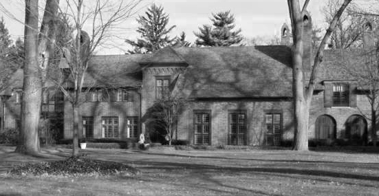 Mennen Hall on Provencal Road in Grosse Pointe Farms